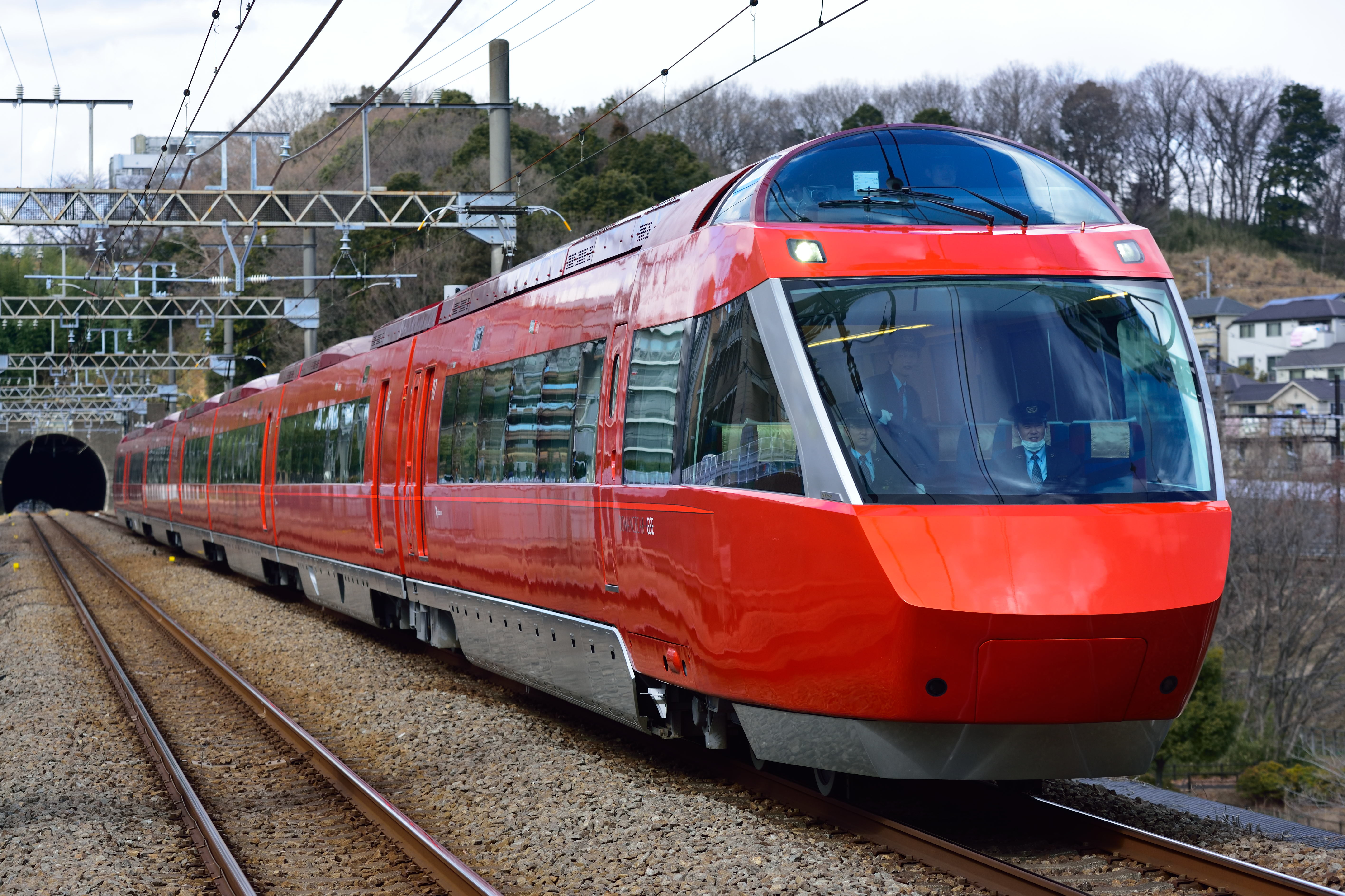 Odakyu Electric Railway 70000 series "GSE" EMU set 70051 on a test run approaching Haruhino Station on the Odakyu Tama Line in Kanagawa Prefecture, Japan